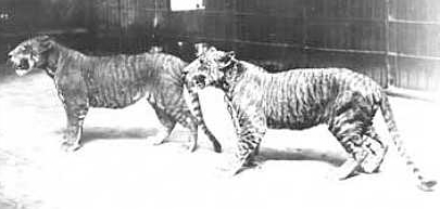 Two ligers. Photographed 1904.